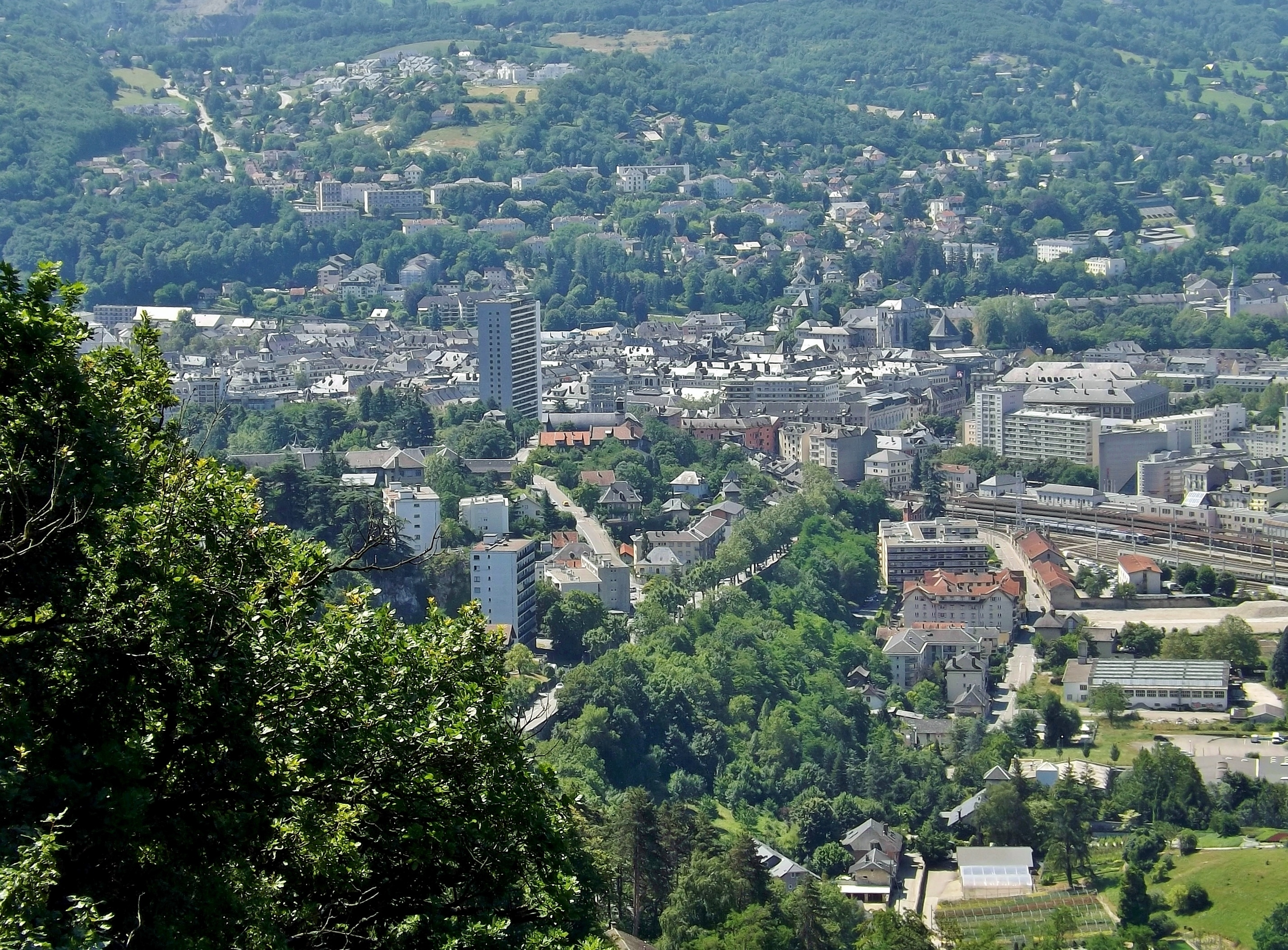 Landscape of the French city of Chambéry and its surroundings, seen from Les Monts (mountain crossing the city), in Savoie.